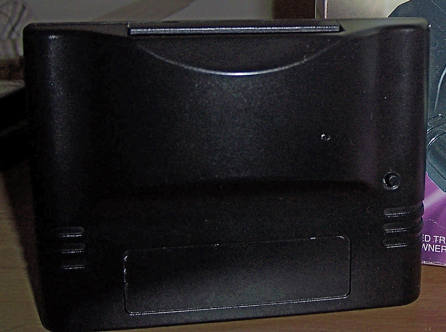 Author: Me Offensiveandconfusing 18:39, 15 October 2006 (UTC) Source: Me Offensiveandconfusing 18:39, 15 October 2006 (UTC) The Box Came Like This From China... Box Says: GB hunter is an emulator for playing Game Boy/Game Boy Color Games at N64 (Nintendo 64) There is hundreds of build in Golden Finger Codes and it searches the Golden Finger Code automatically